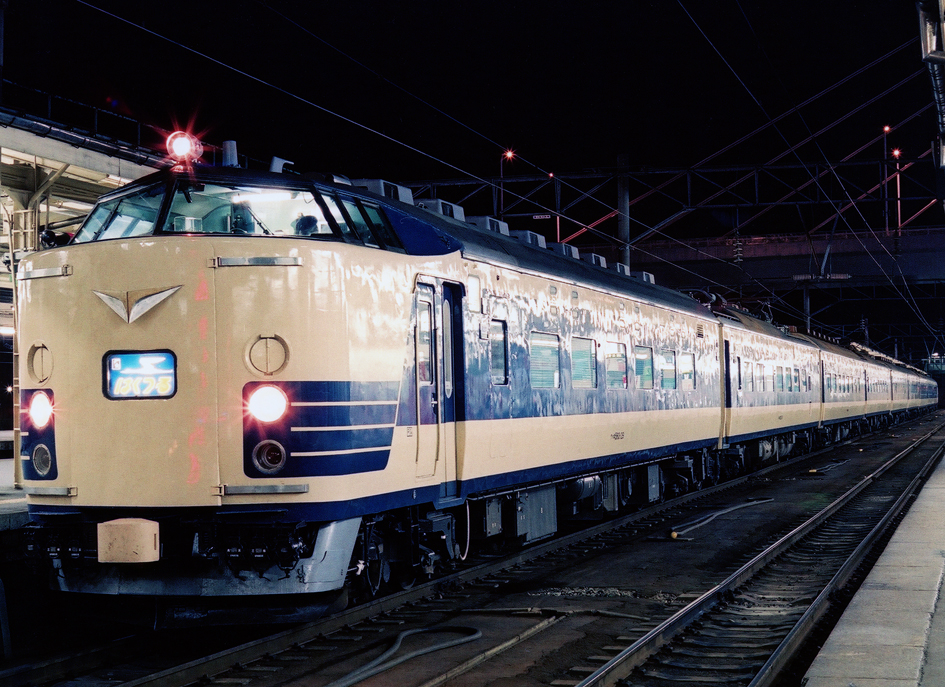 JNR 583 series EMU for the Limited Express train Hakutsuru at Aomori Station